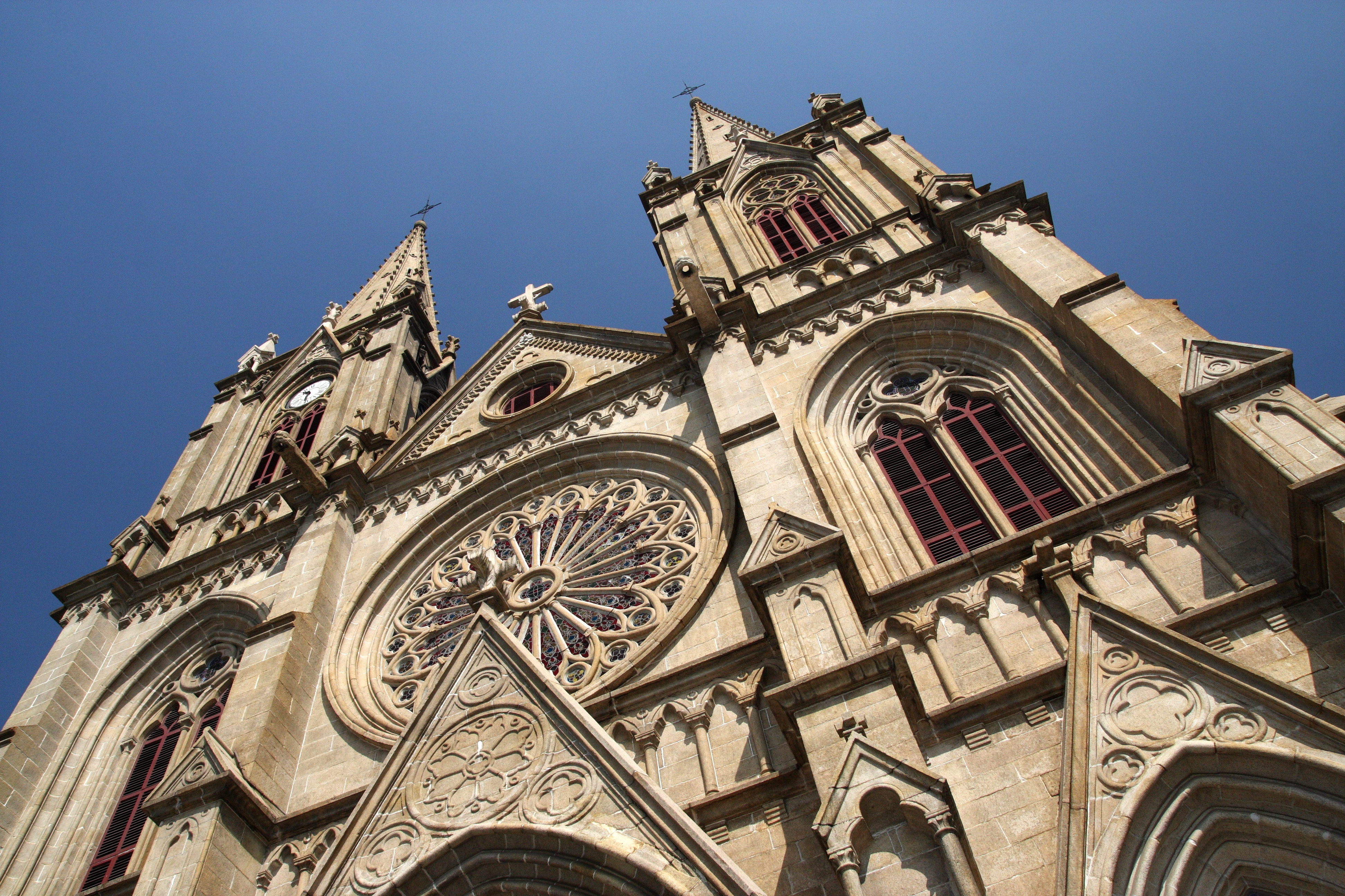 Cathedral of the Sacred Heart of Jesus, Guangzhou, China